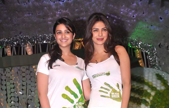 Parineeti priyanka greenathon